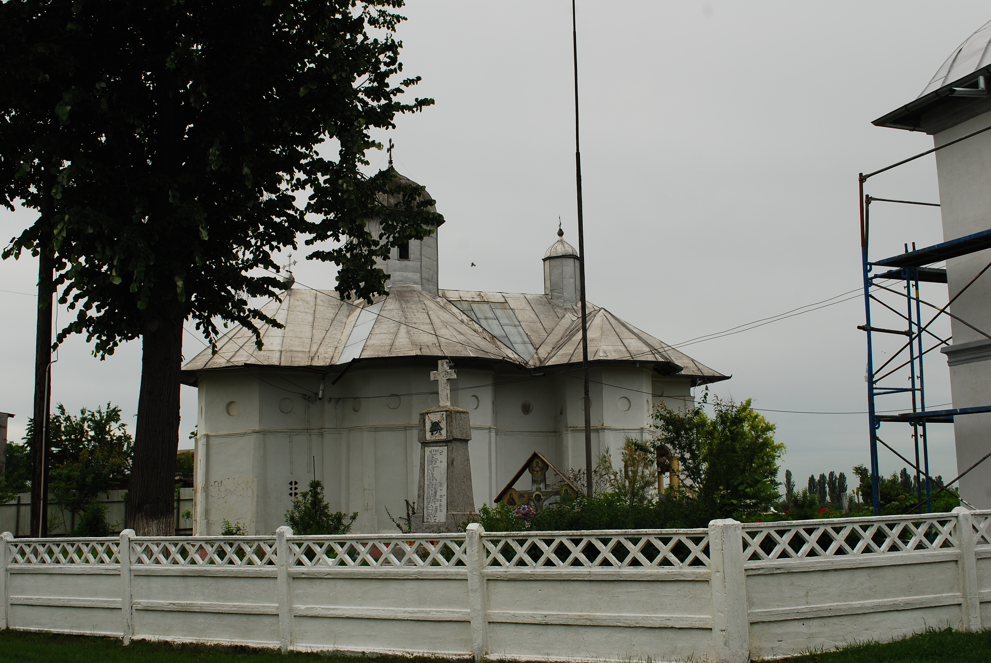 Church of St. Stephen in Corlătești, Berceni commune, Prahova County, RomaniaRomână: Biserica Sf. Ștefan din Corlătești, comuna Berceni, județul Prahova, România 01